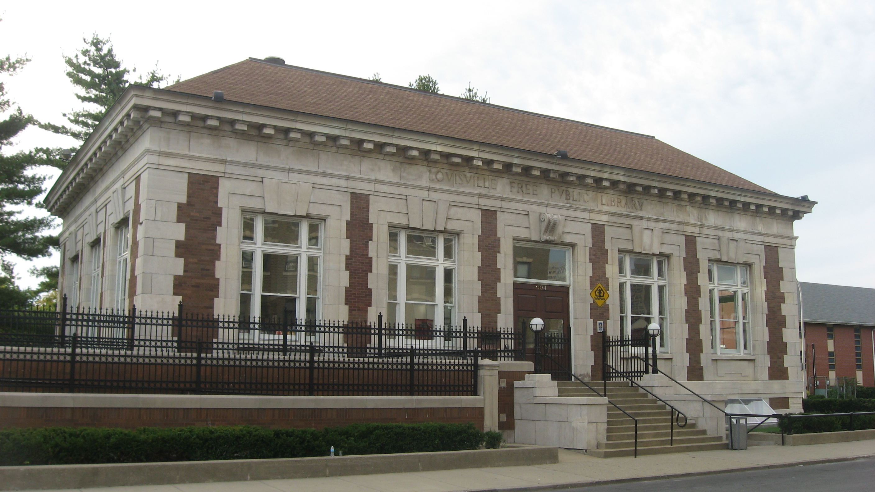 Front of the Louisville Free Public Library, Western Colored Branch, a Carnegie library located at 604 S. Tenth Street in the West End of Louisville, Kentucky, United States. Built in 1907 to serve local blacks, it is listed on the National Register of Historic Places.